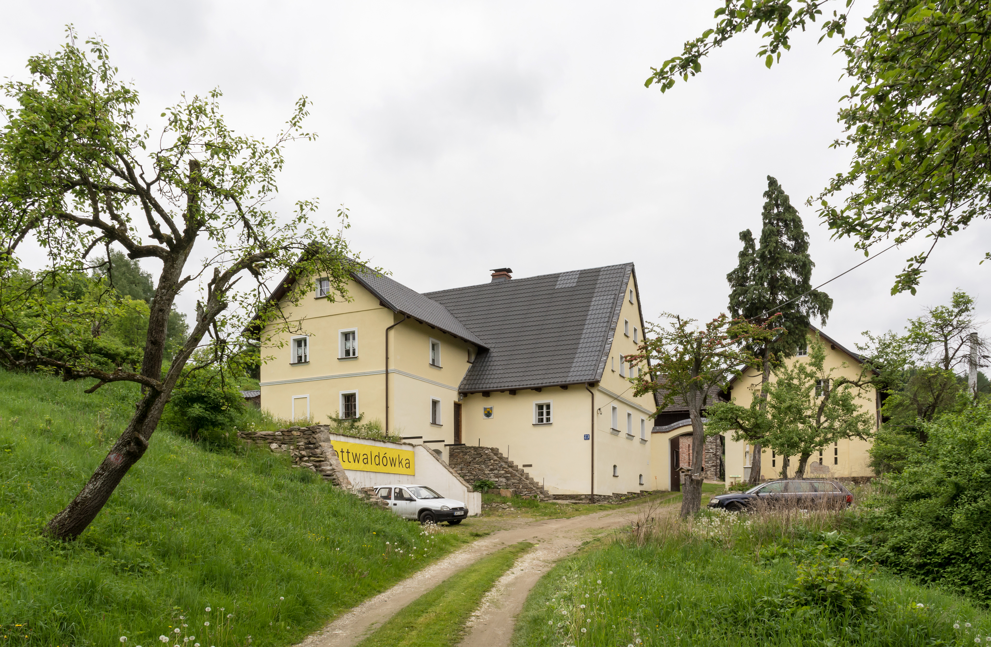 Gottwaldówka in Kąty Bystrzyckie